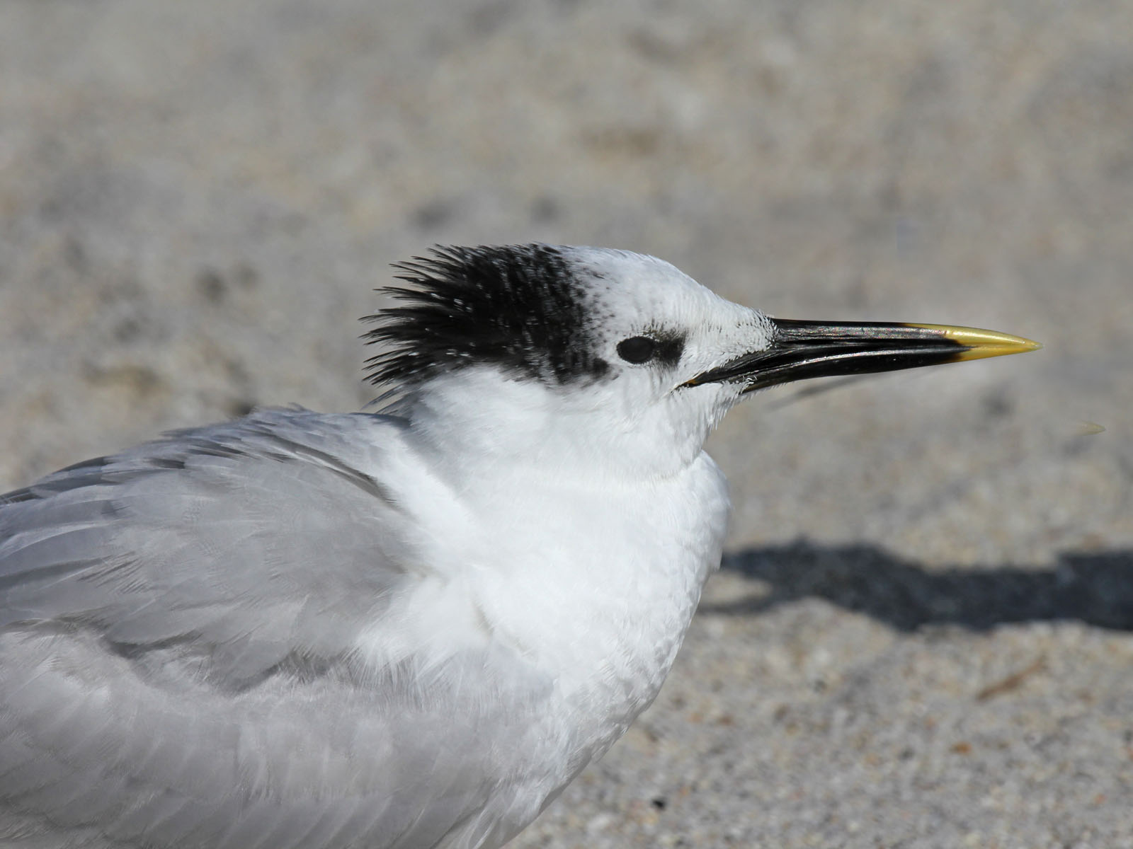 Cabot's Tern (Thalasseus acuflavidus) - Venice, Florida. Also known as Sandwich Tern (Thalasseus sandvicensis acuflavida)